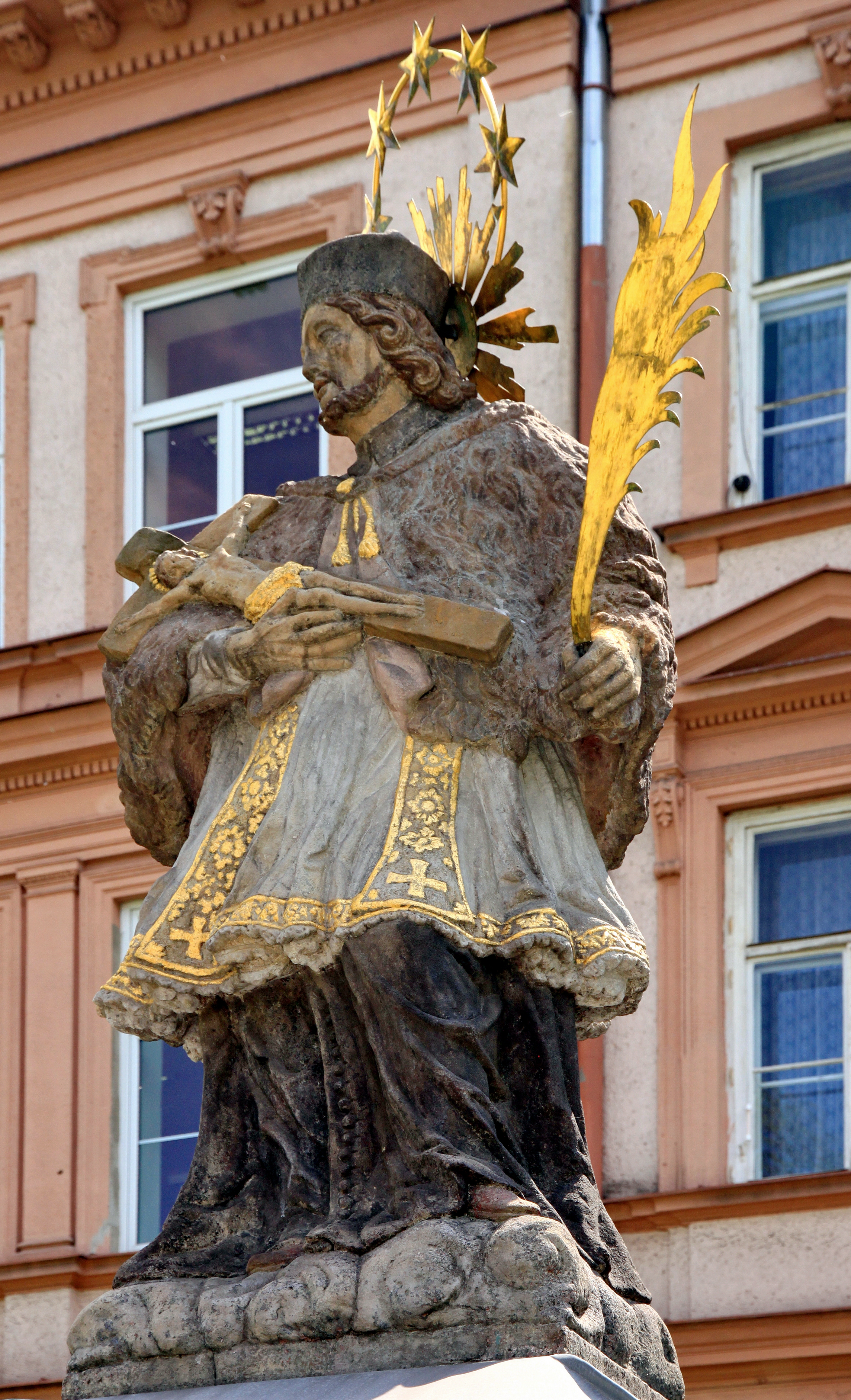 Statue of St. John of Nepomuk, Český Těšín, Masaryk Park